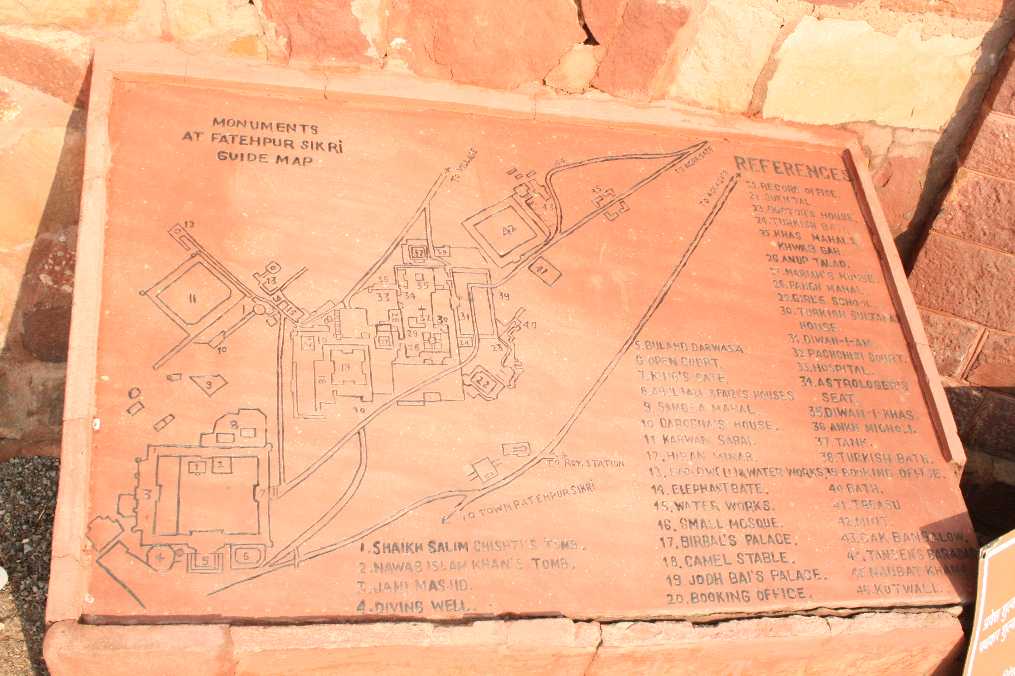 Fatehpur Sikri, India